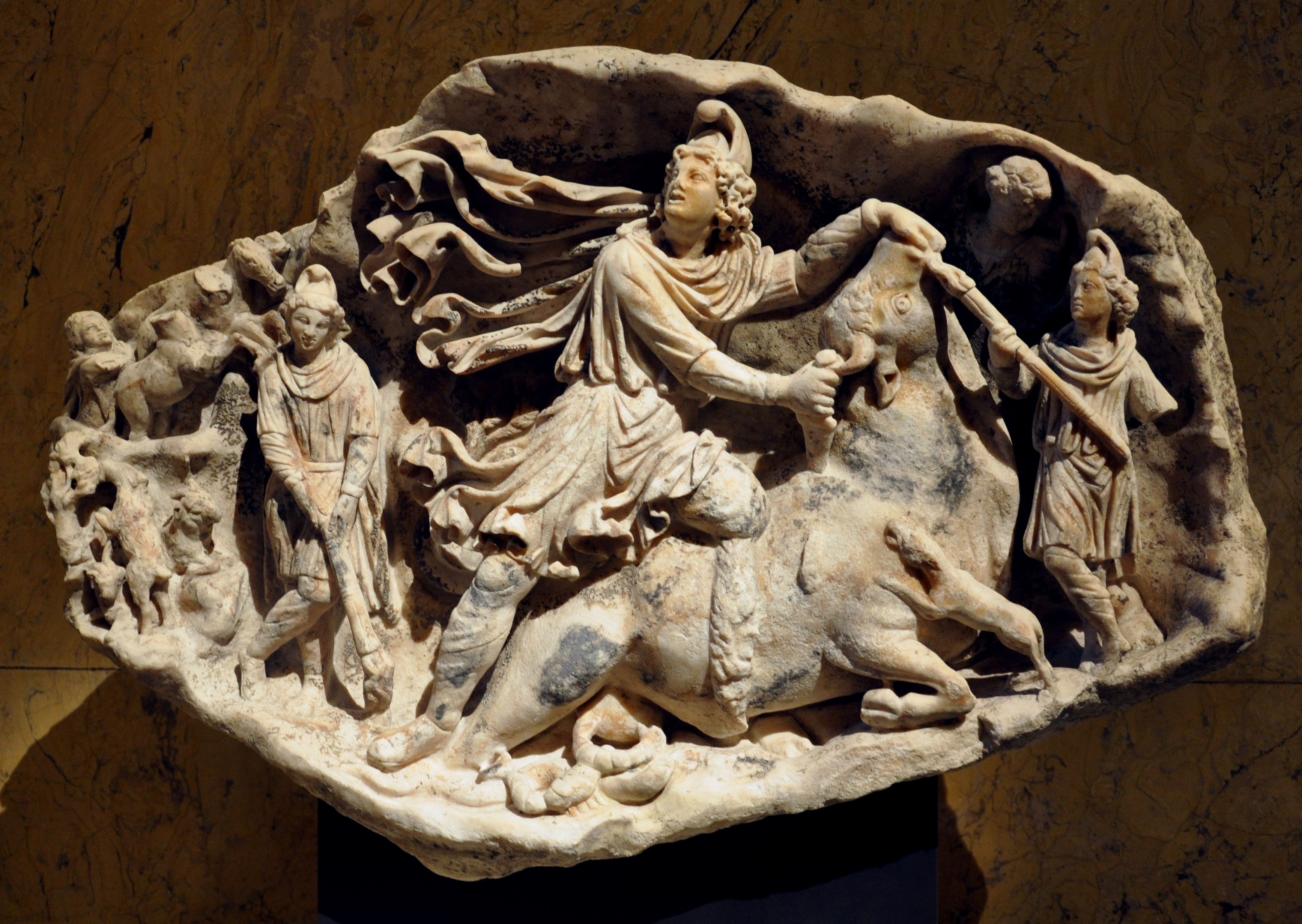 Mithras Relief (Tauroctony), from Aquileia, 2nd half of 2nd century AD. Kunsthistorisches Museum, Vienna. Inv. No. I 624.